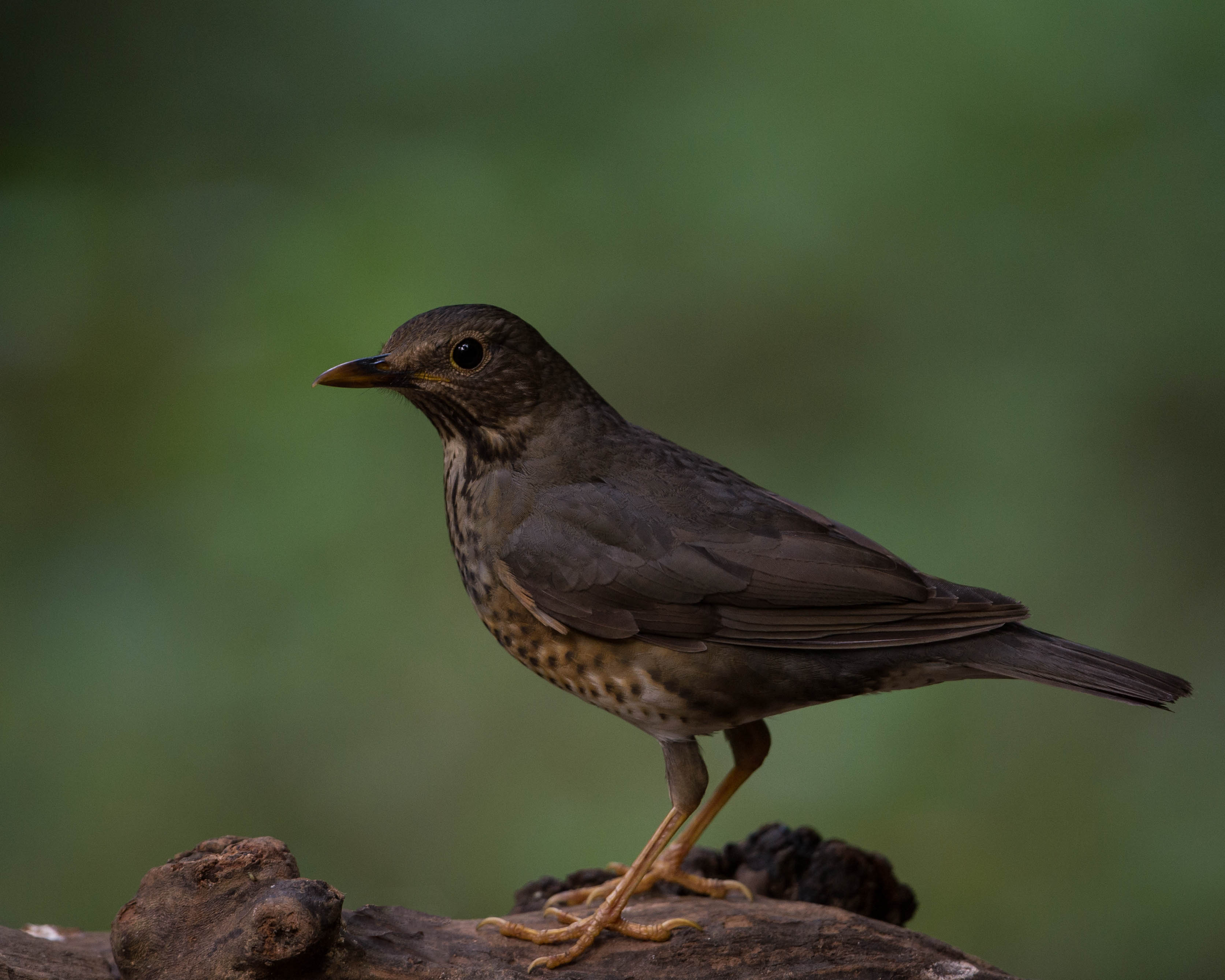 Female of Japanese Thrush (Turdus cardis). 17th February 2013 at Thai/Myanmar Border. Doi Ang Khang National Park, Chiang Mai, Thailand